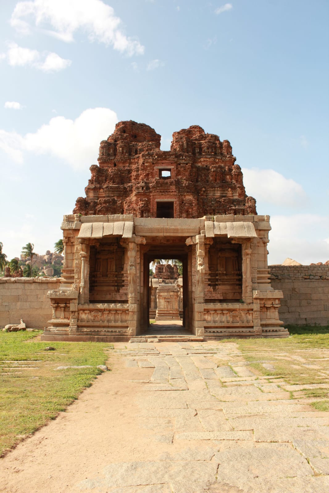 Achuyuth Raya Temple at Unesco World Heritage site of Hampi